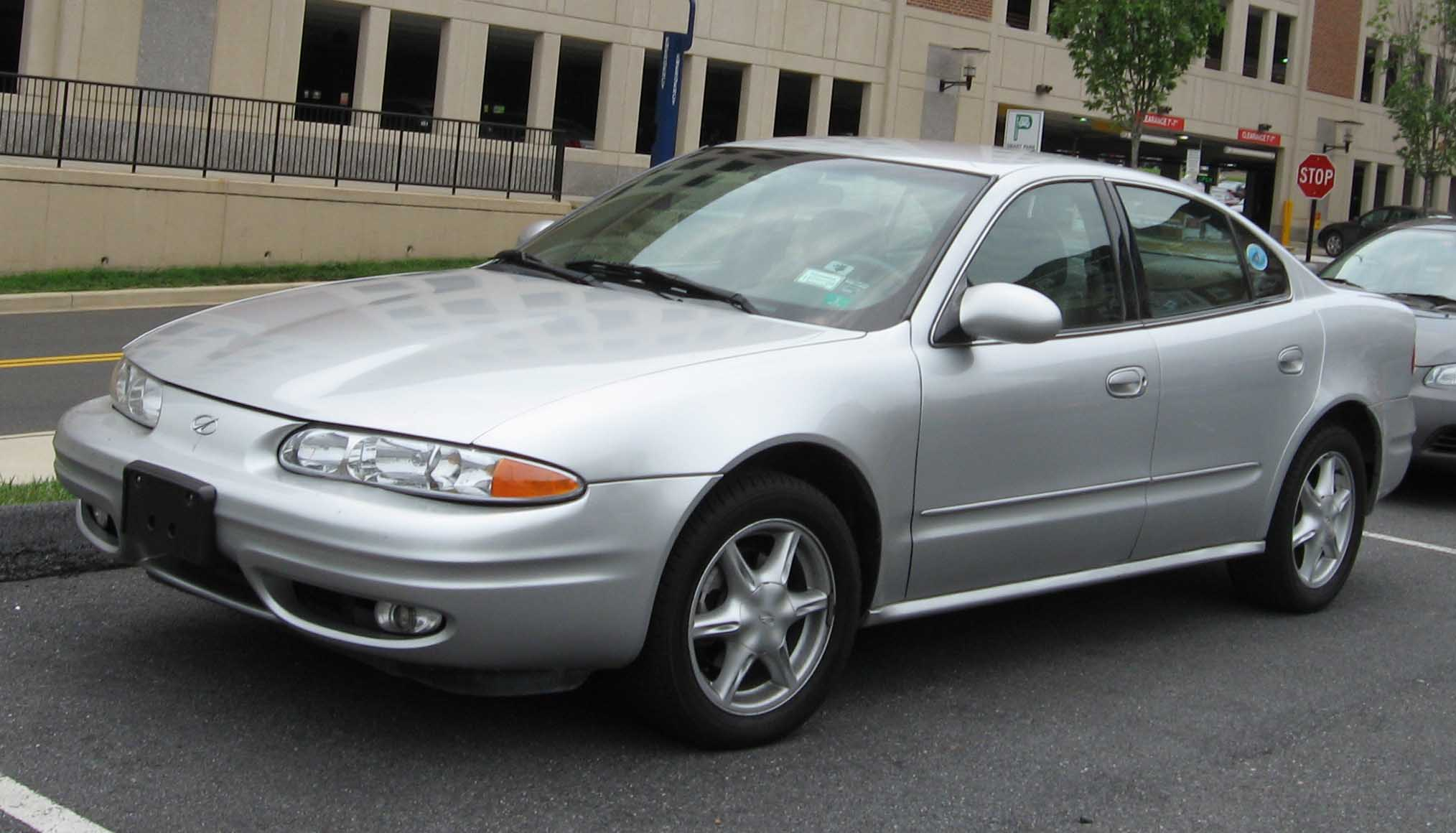 Oldsmobile Alero photographed in USA.